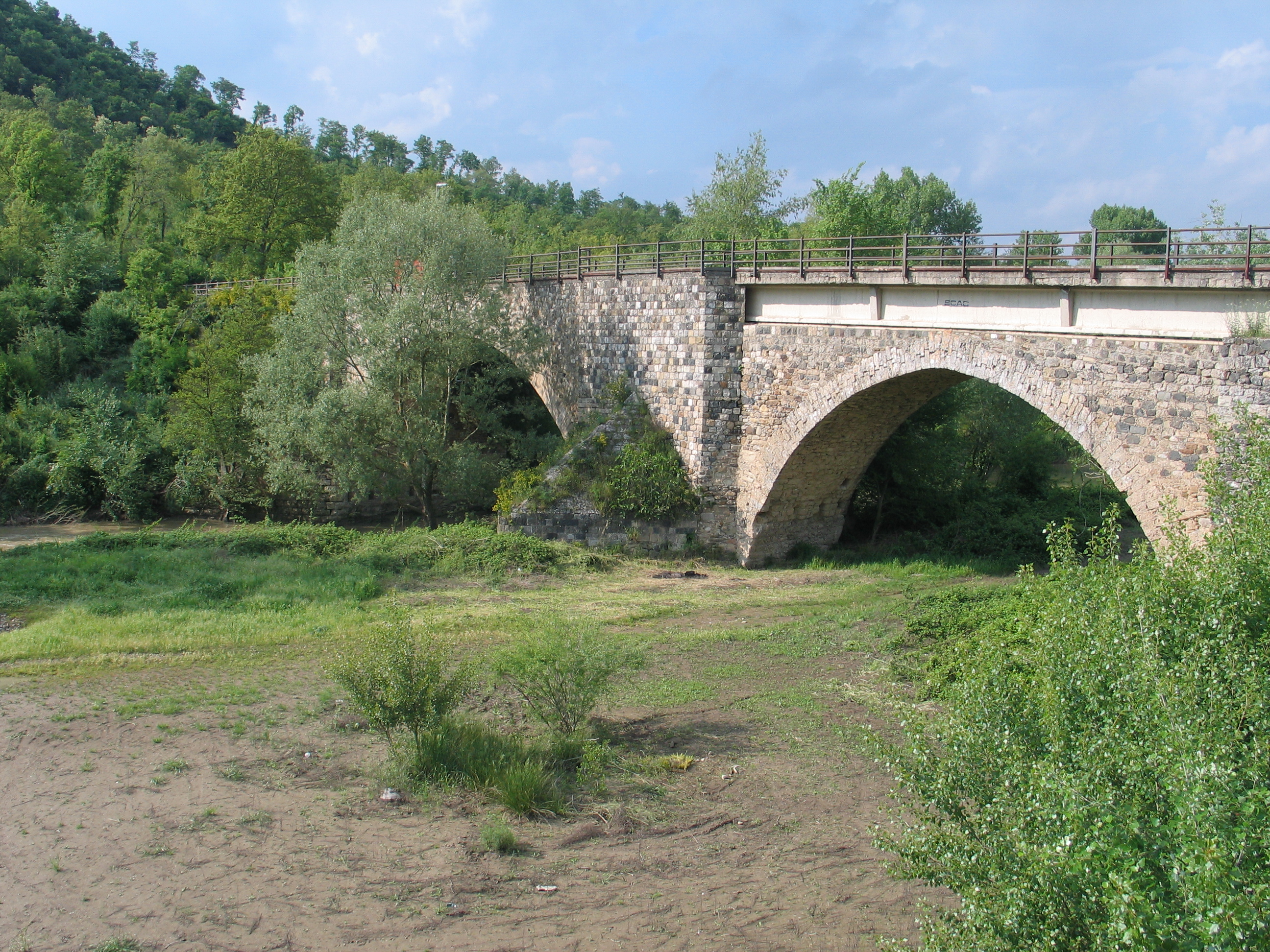 An ancient roman bridge that cross Ofanto river, in South Italy, near Monteverde, Campania.